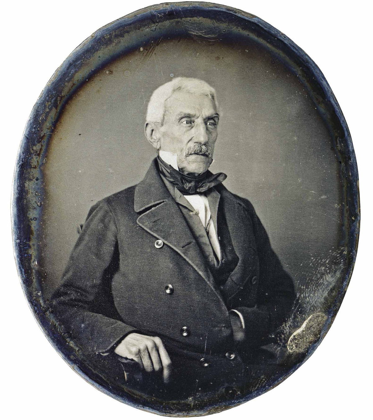 Daguerreotype of José de San Martín made in París in 1848. It is the only photograph of San Martín ever taken. The original is kept in the National Historical Museum of Argentina.